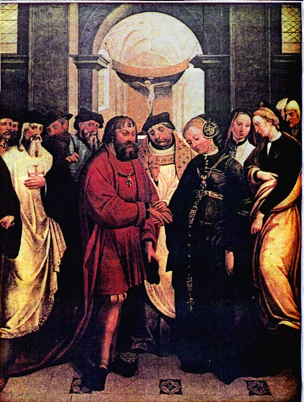 Wedding of Manuel I of Portugal and infanta Maria of Aragon, anno 1482